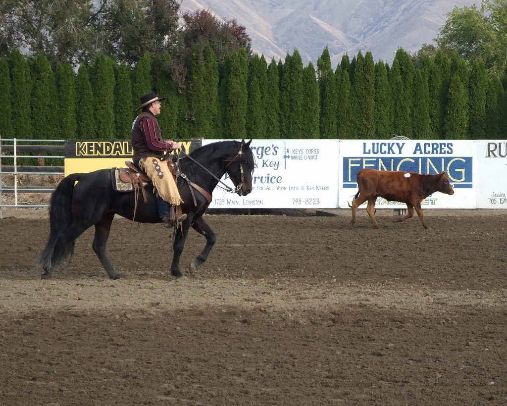 Cream Ridge Marty, Morgan stallion owned by Cary Newman, shown in a Ranch Horse competition event.